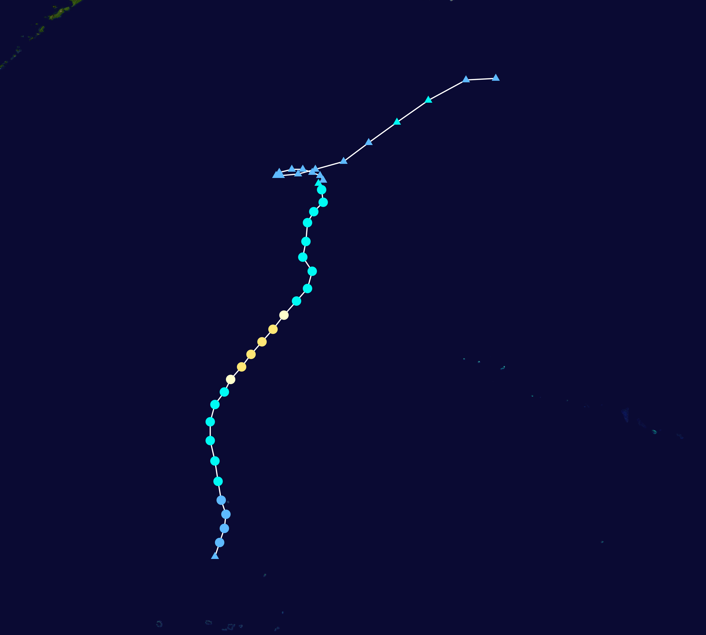 Typhoon Meranti (2004) track. Uses the color scheme from the Saffir-Simpson Hurricane Scale.